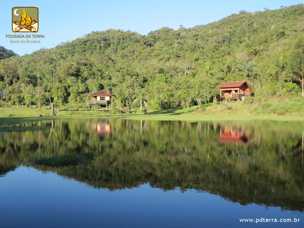 Serra da Bocaina - Pousada da Terra